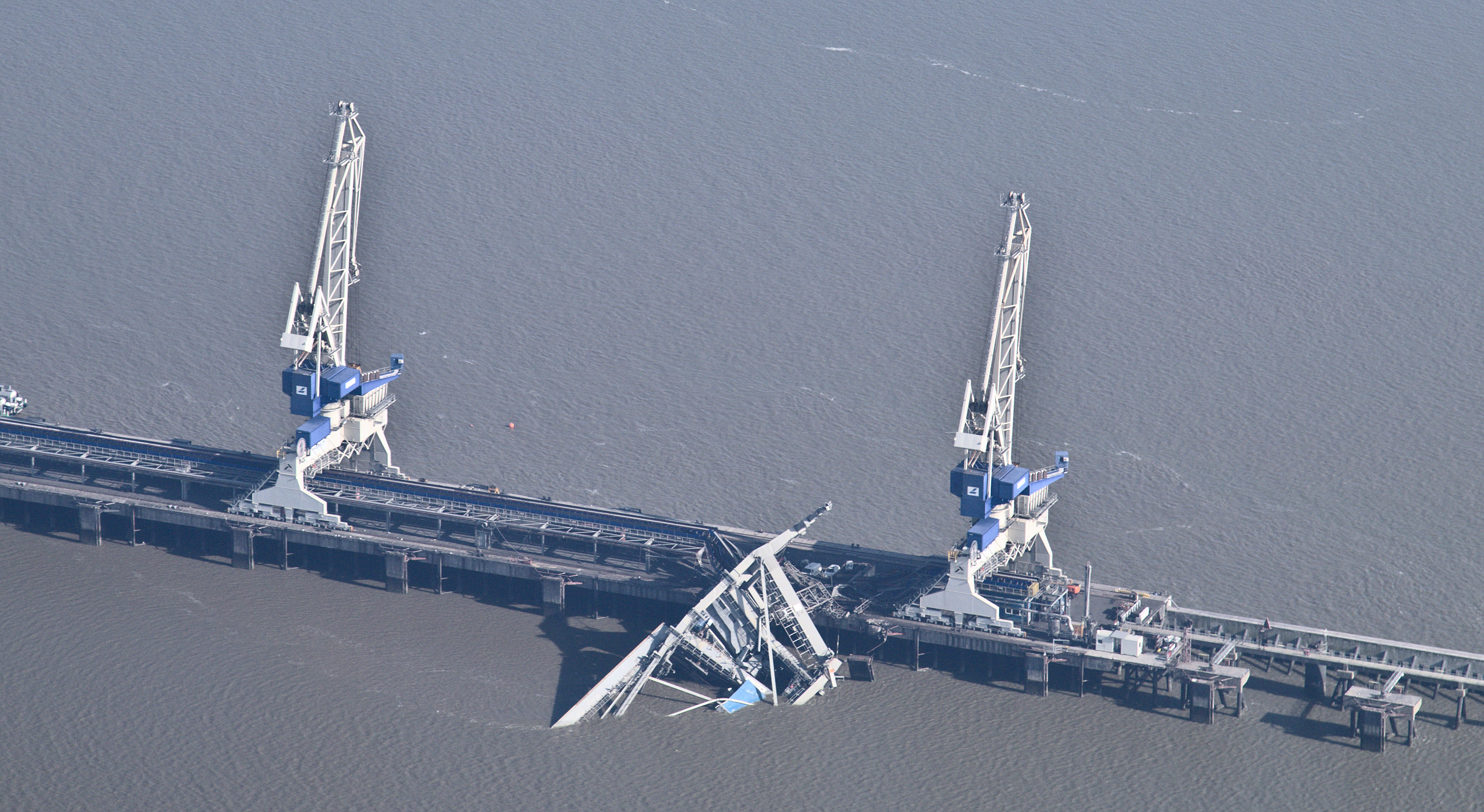 The Niedersachsenbrücke [Lower Saxony bridge] in Wilhelmshaven city, Germany, with the remains of the gantry crane built in 1972, which was destroyed by the storm "Xavier" and fell into the water on October 5, 2017. On the left and right, the new cranes built in 2011 are still there.